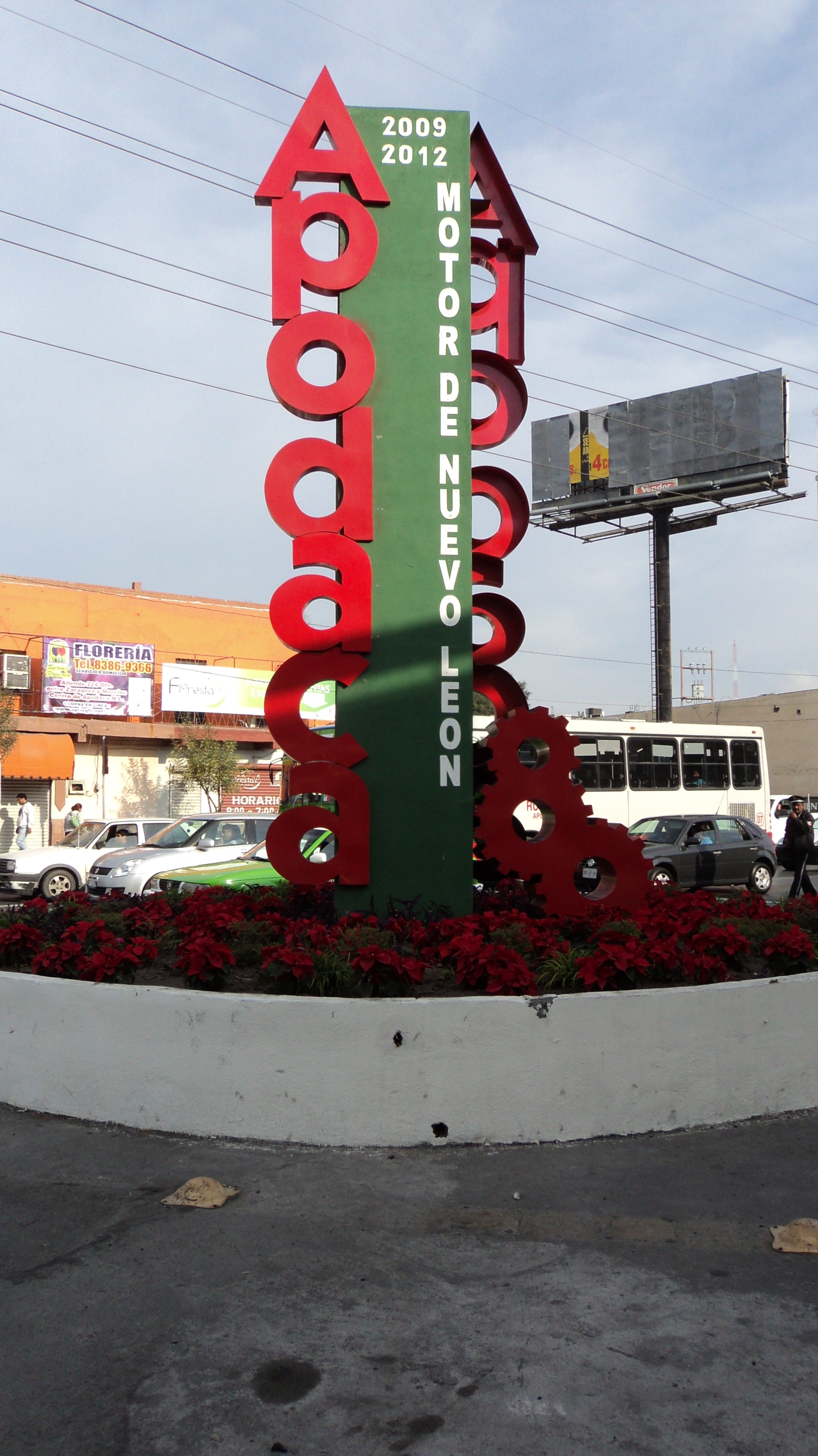 Esta foto esta tomada en la entra de el centro de Apodaca — un municipio de el estado de Nuevo Leon